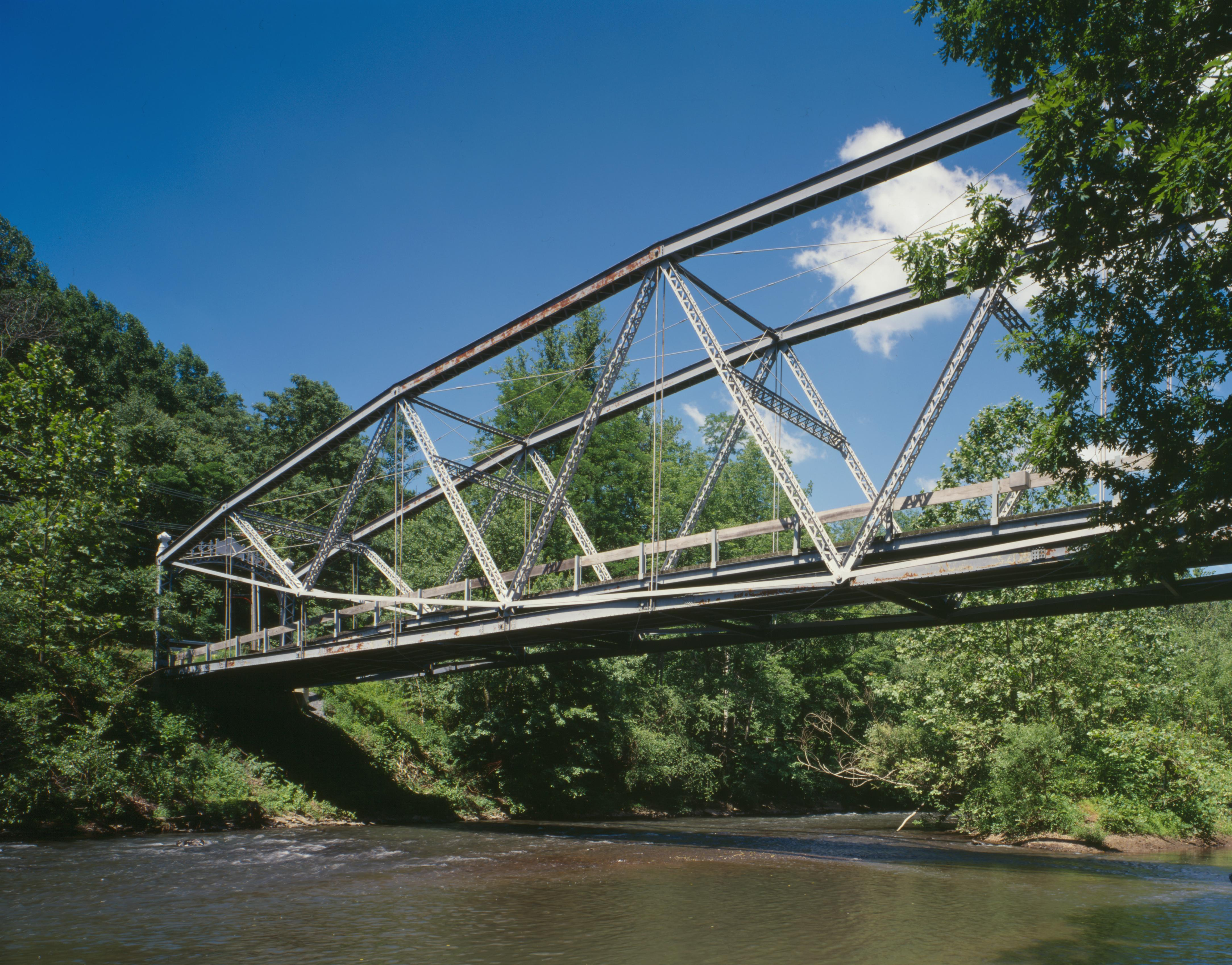 Picture of the Waterville lenticular truss bridge, now over Swatara Creek in Swatara State Park in Lebanon County, Pennsylvania, United States Original number was "HAER PA,38-GREPO.V,1-14", original caption was "PA-462-14 (CT) 3/4 VIEW FROM EAST."